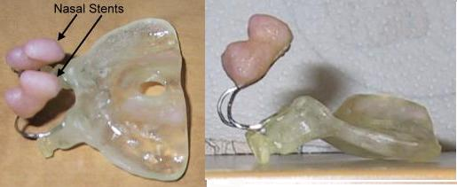 Cleft palate prostheses